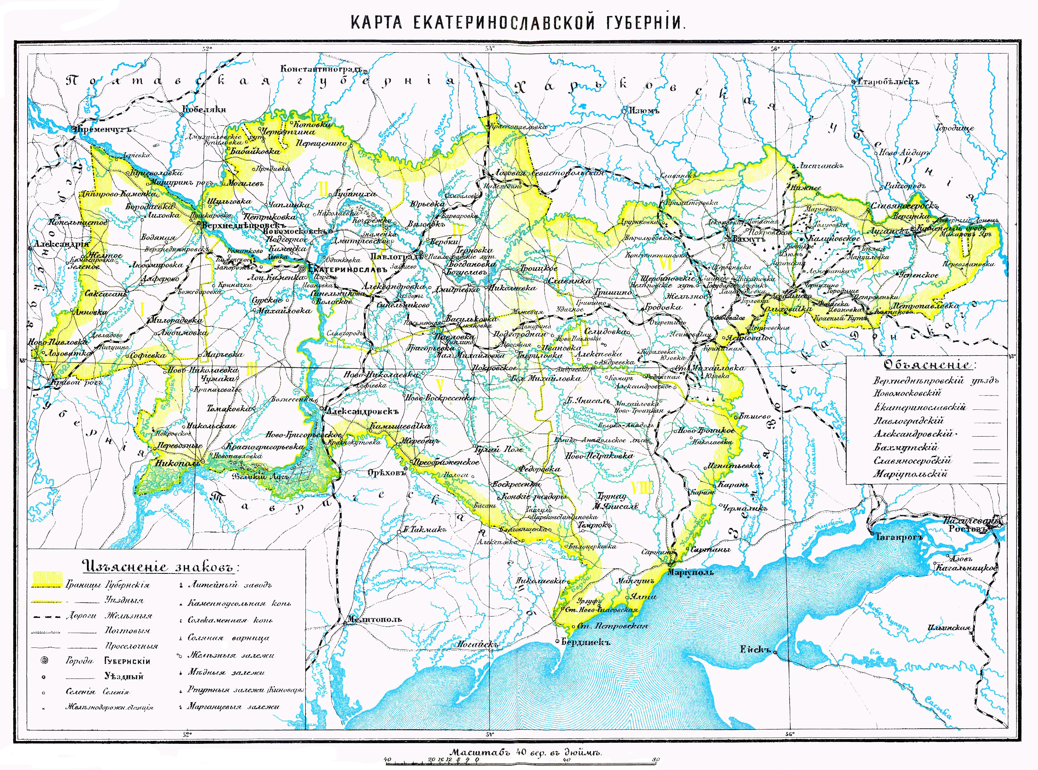 Illustration from Brockhaus and Efron Encyclopedic Dictionary (1890—1907)